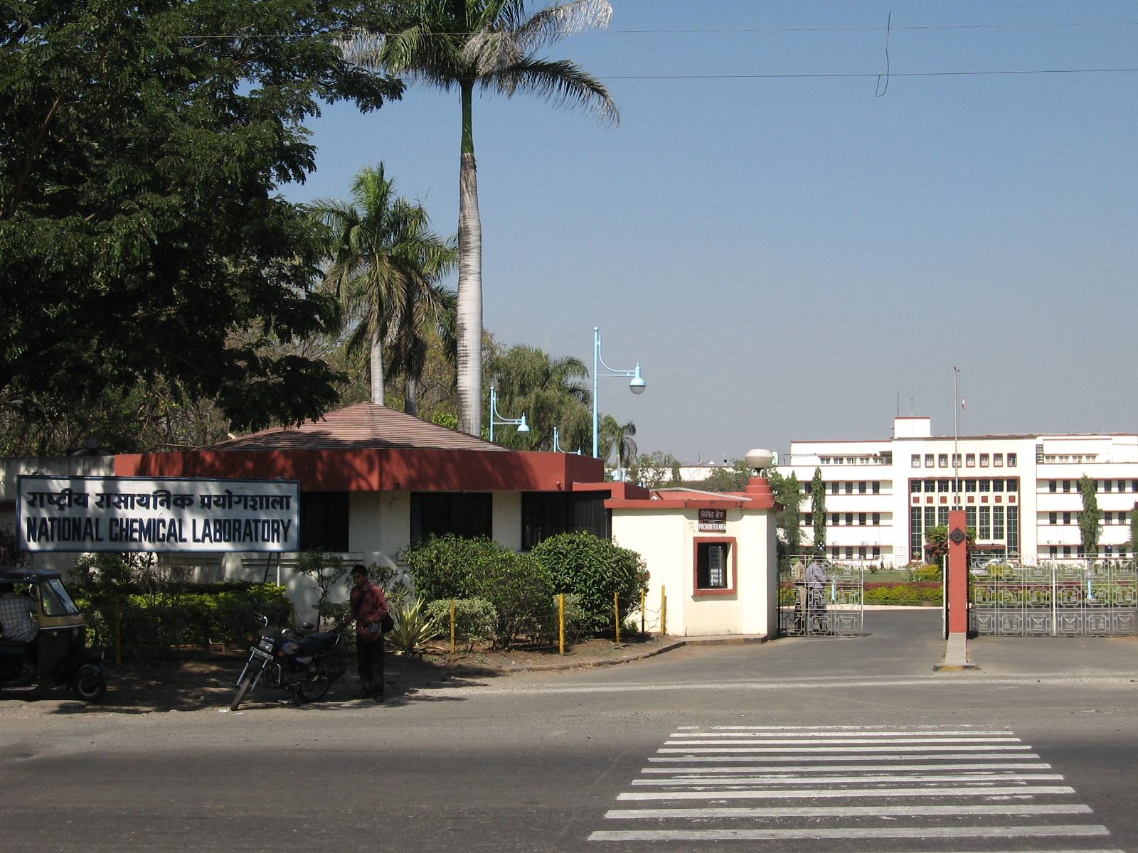 author: Tejas Iyer, source: taken by myself